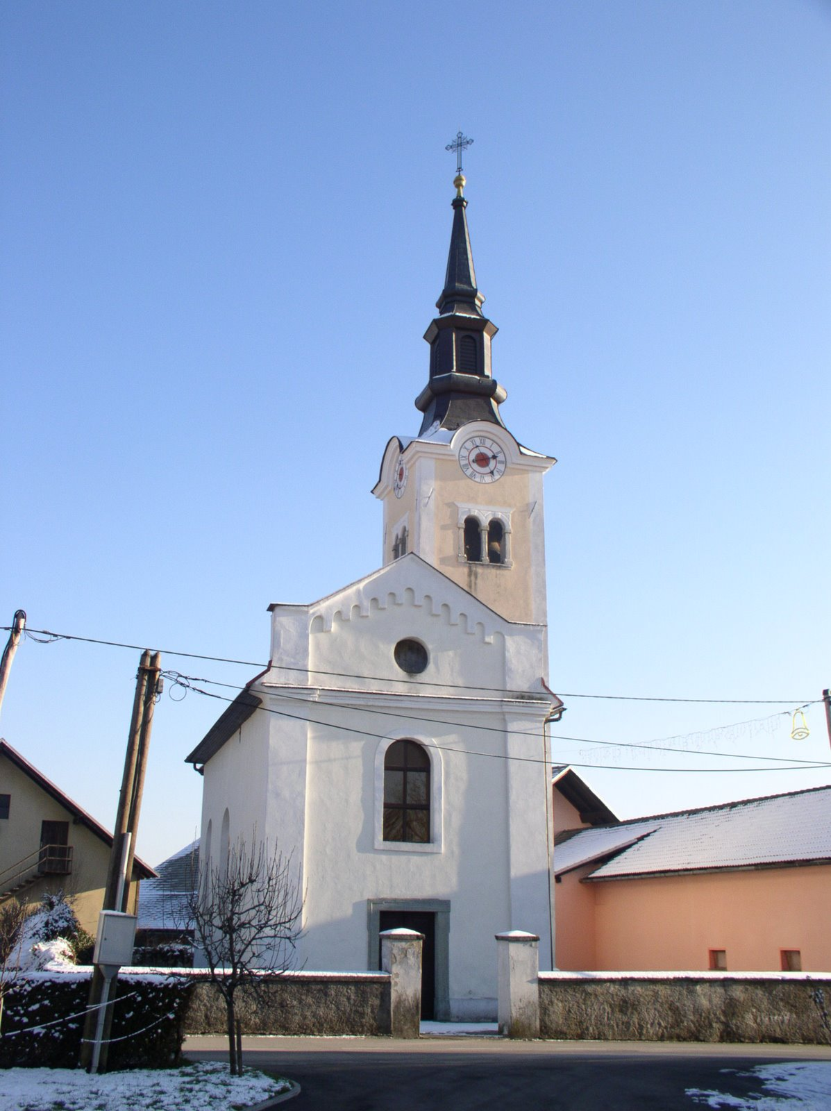 Saint Ulrich of Augsburg church, Hotemaže